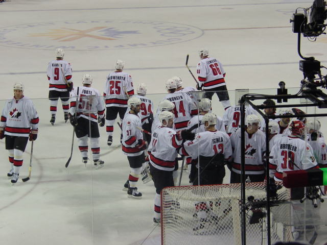 The Canadian team after a game against the Czech Republic at the 2002 Winter Olympics.